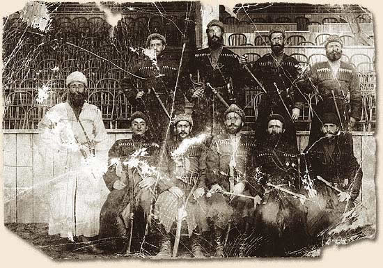 Clockwise from left: Ivane Makharadze (In white “chokha”), Karaman Kalandarishvili, Ivane “Kid” Makharadze, Silibistro Makharadze, Joseph Talakhadze, Giorgi Kalandarishvili, Kishvard Makharadze, S. Dgebuadze, Luka Chkhartishvili, Pavle Makharadze, USA, 1893.